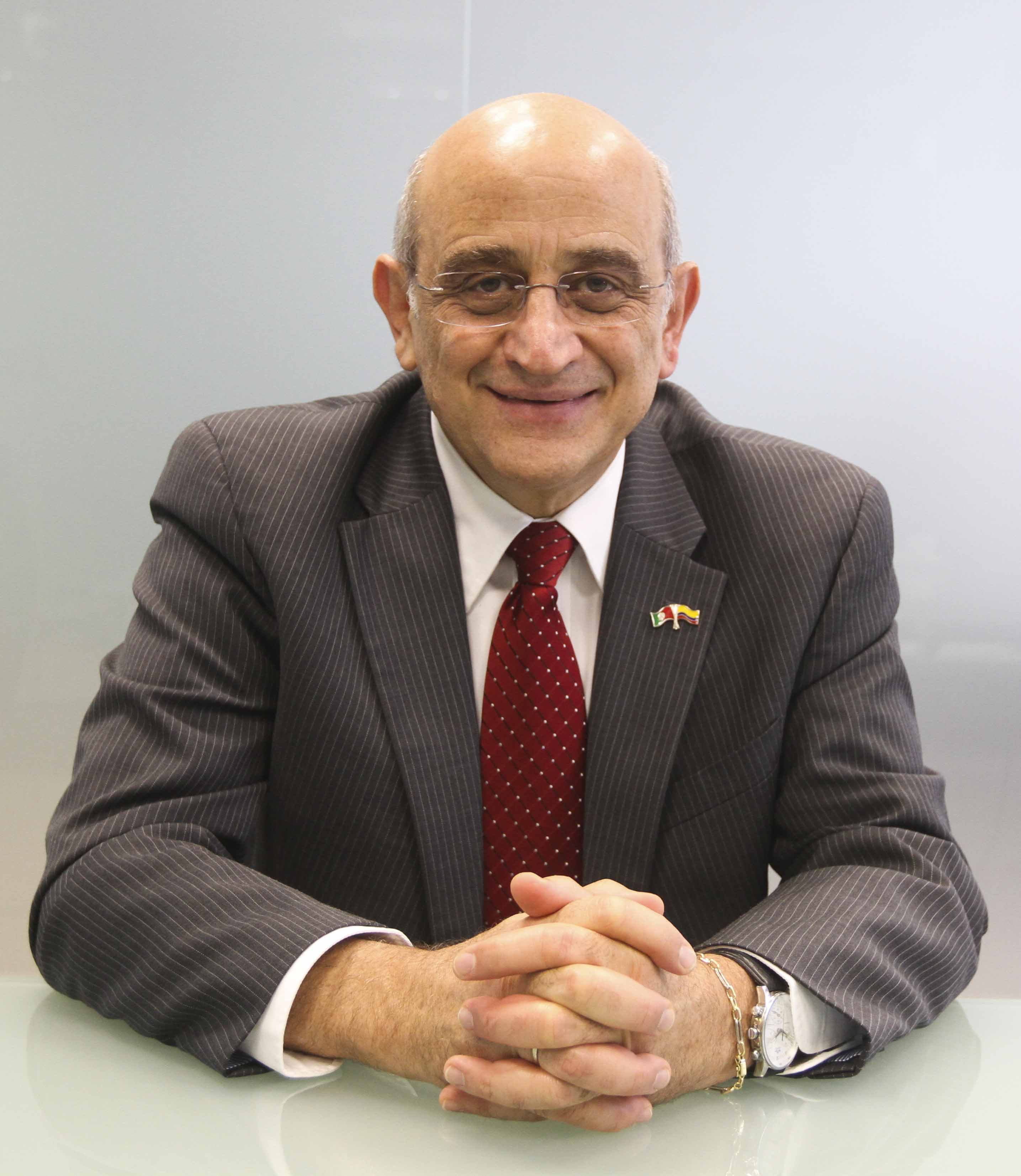 Germán Efromovich, Board President of Avianca